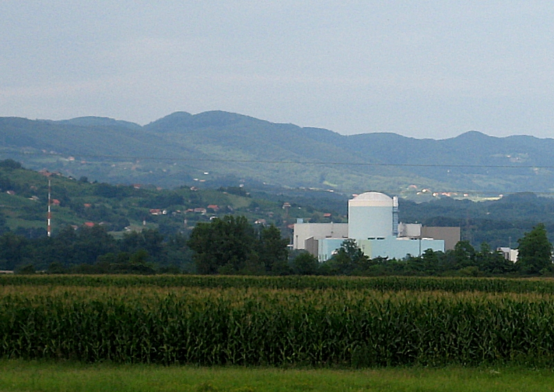 Nuclear power plant Krško, Slovenia